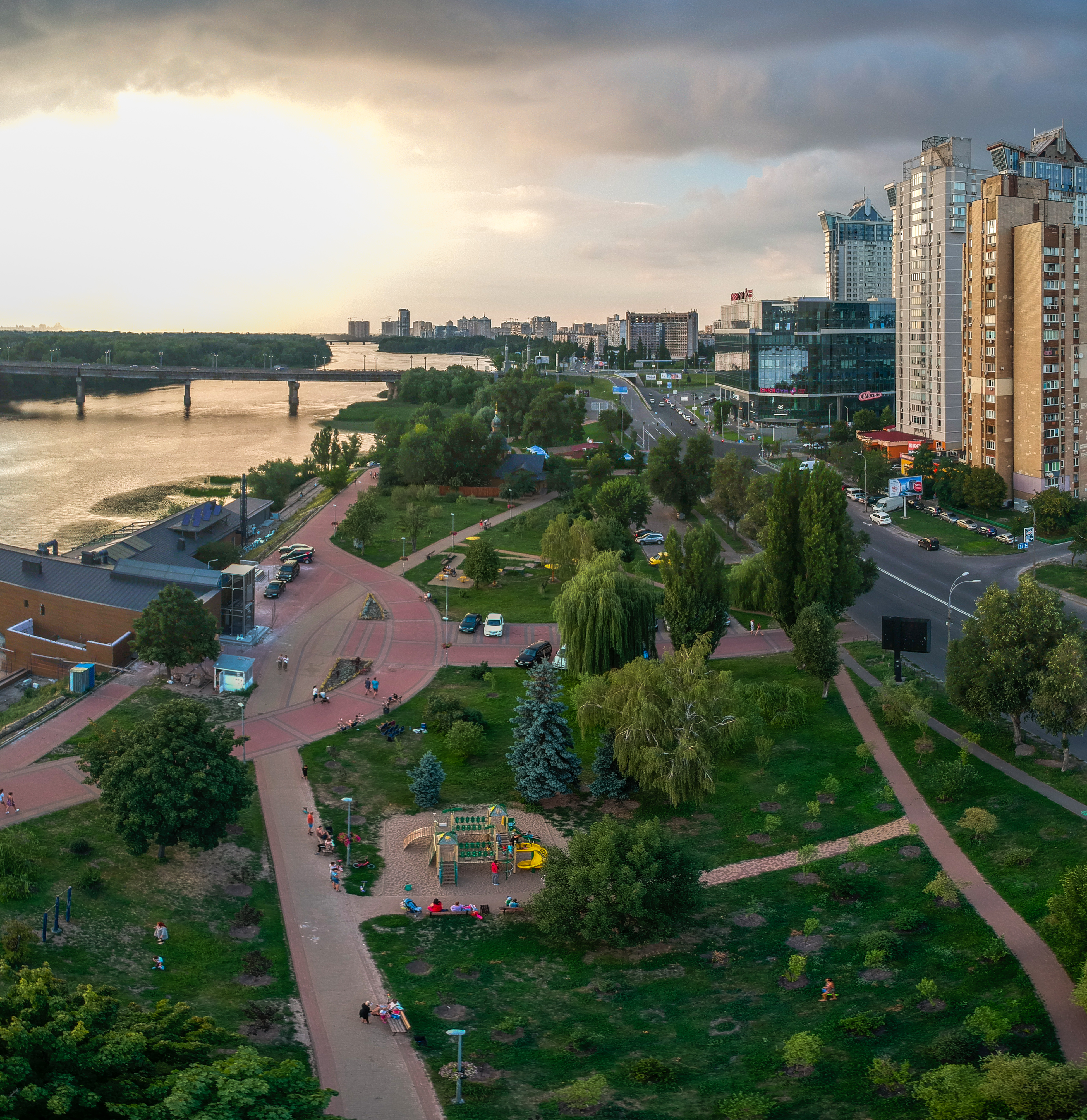 Dniprovska Embankment, Berezniaky, Kyiv